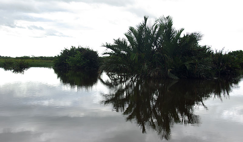 In the Klias Wetlands, Borneo